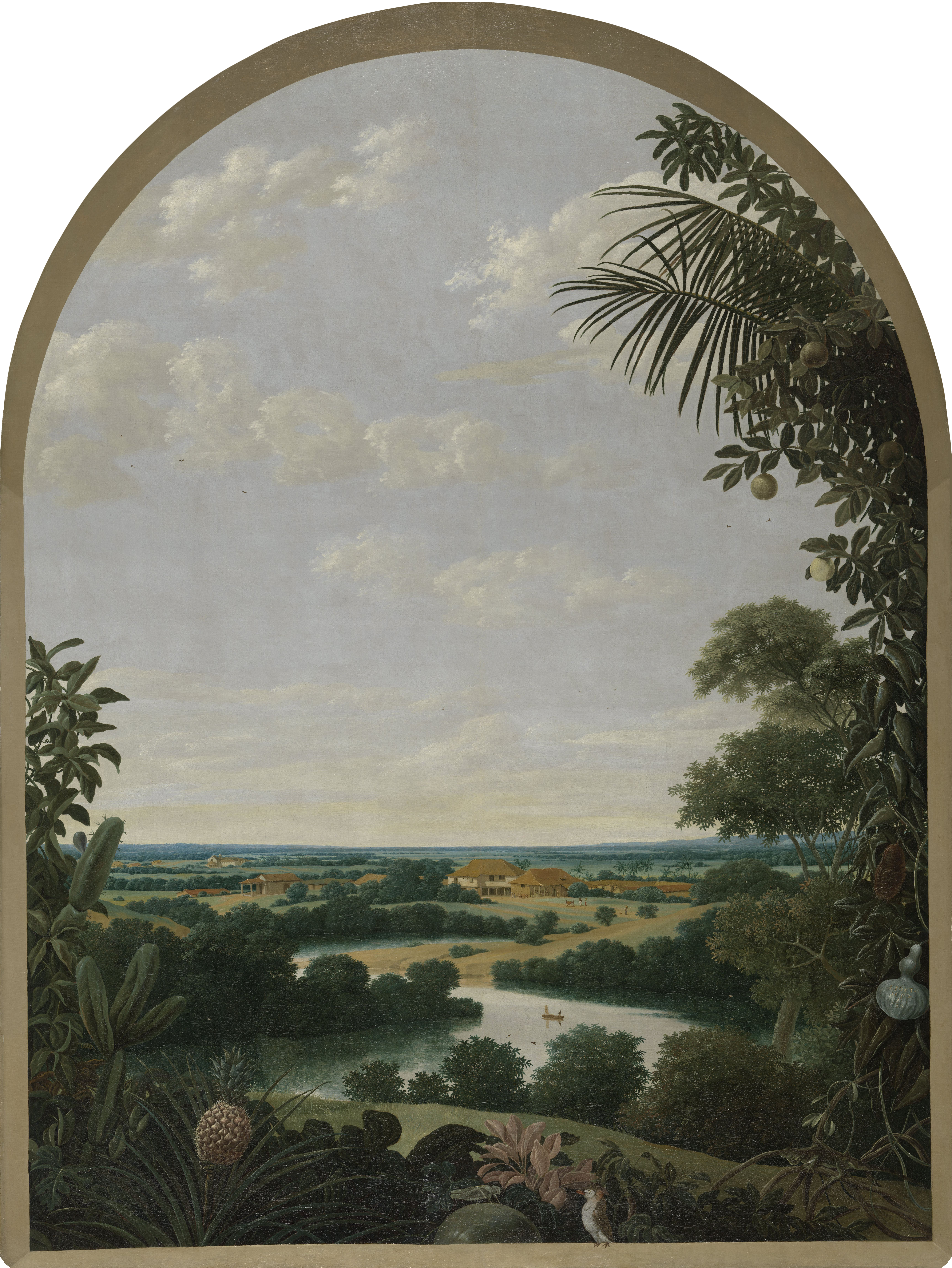 Landscape in Brazil. View from in between plants to a river landscape with plantations. On the foreground tropical plants (pineapple, calabash, cactus) and animals (bird, grasshopper).